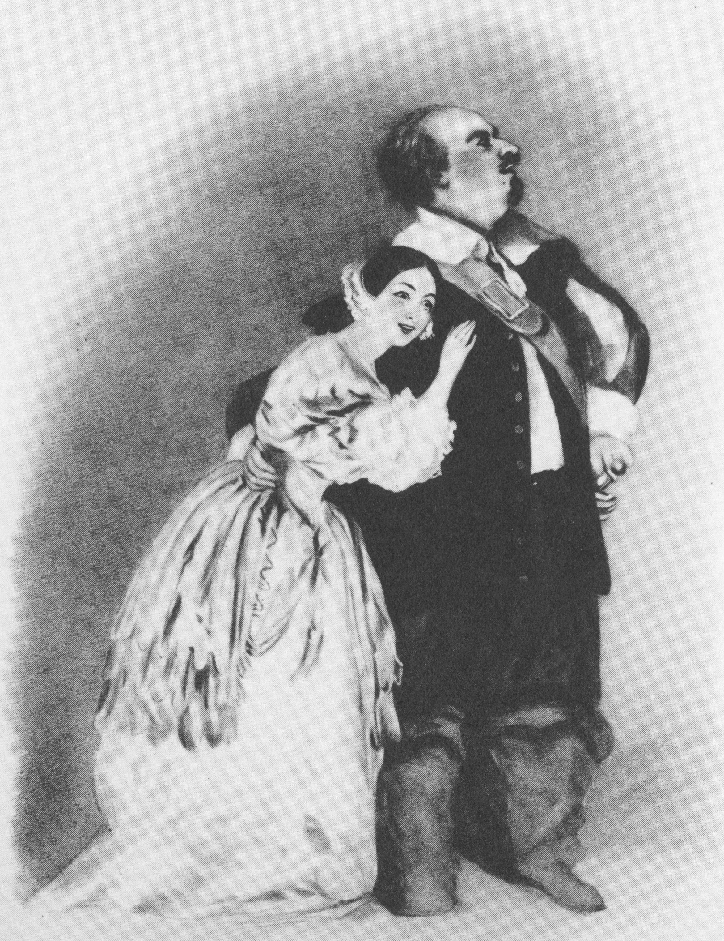 Luigi Lablache and Giulia Grisi in Bellini's I puritani, at the King's Theatre, London in 1835